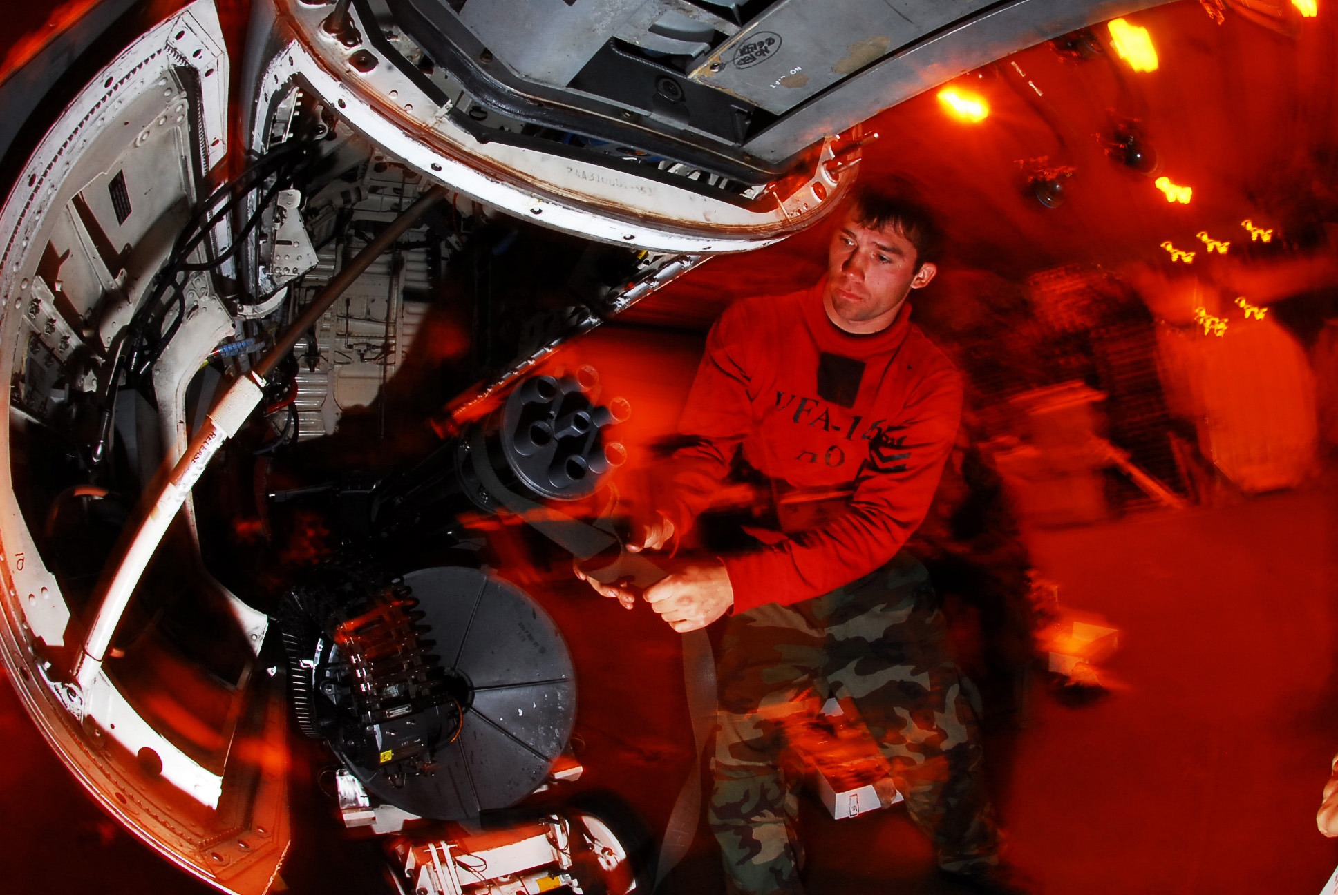 U.S. Navy Petty Officer 2nd Class Hunter Owens reinstalls an M-61A1 20-mm Gatling gun in the gun bay of an F/A-18C Hornet aircraft assigned to Strike Fighter Squadron 146 during routine maintenance in the hangar bay aboard the aircraft carrier USS John C. Stennis (CVN 74) while underway in the Pacific Ocean on Oct. 26, 2008. The Stennis and embarked Carrier Air Wing 9 are conducting a composite training unit exercise off the coast of southern California.